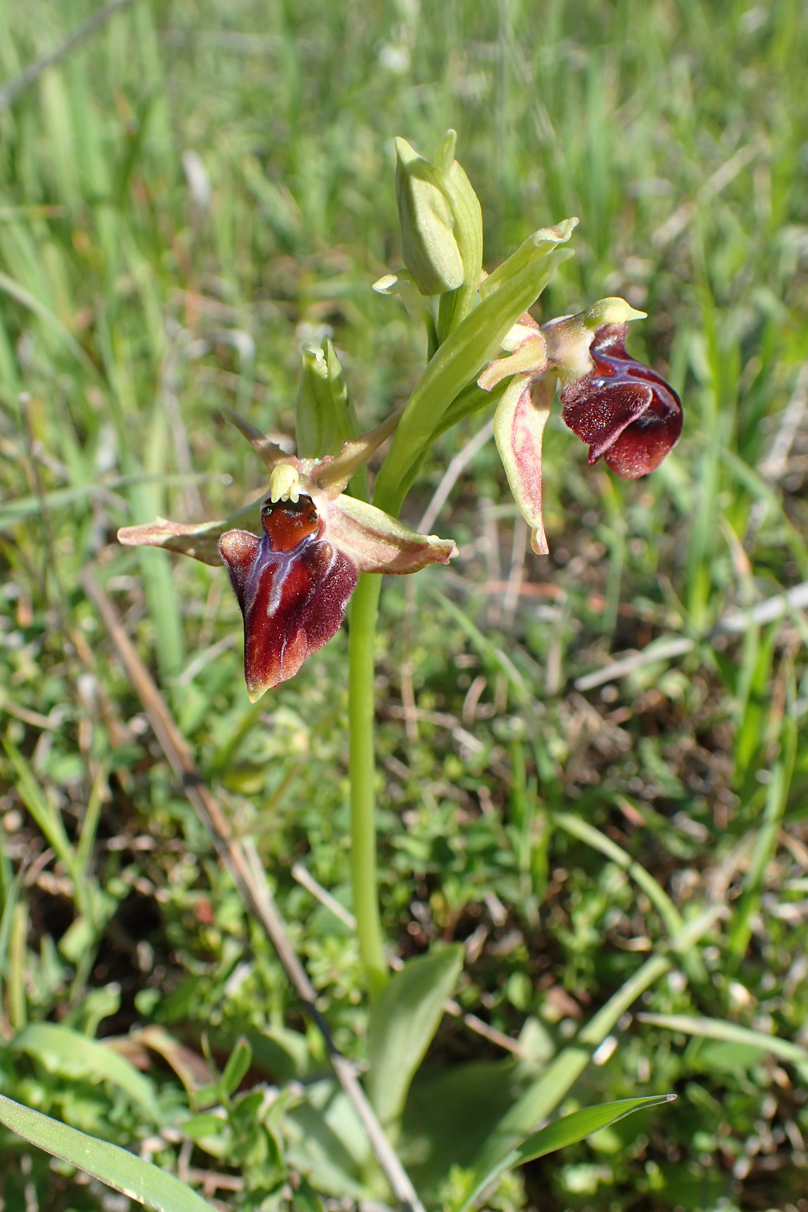 Ophrys mammosa in Agios, Cyprus